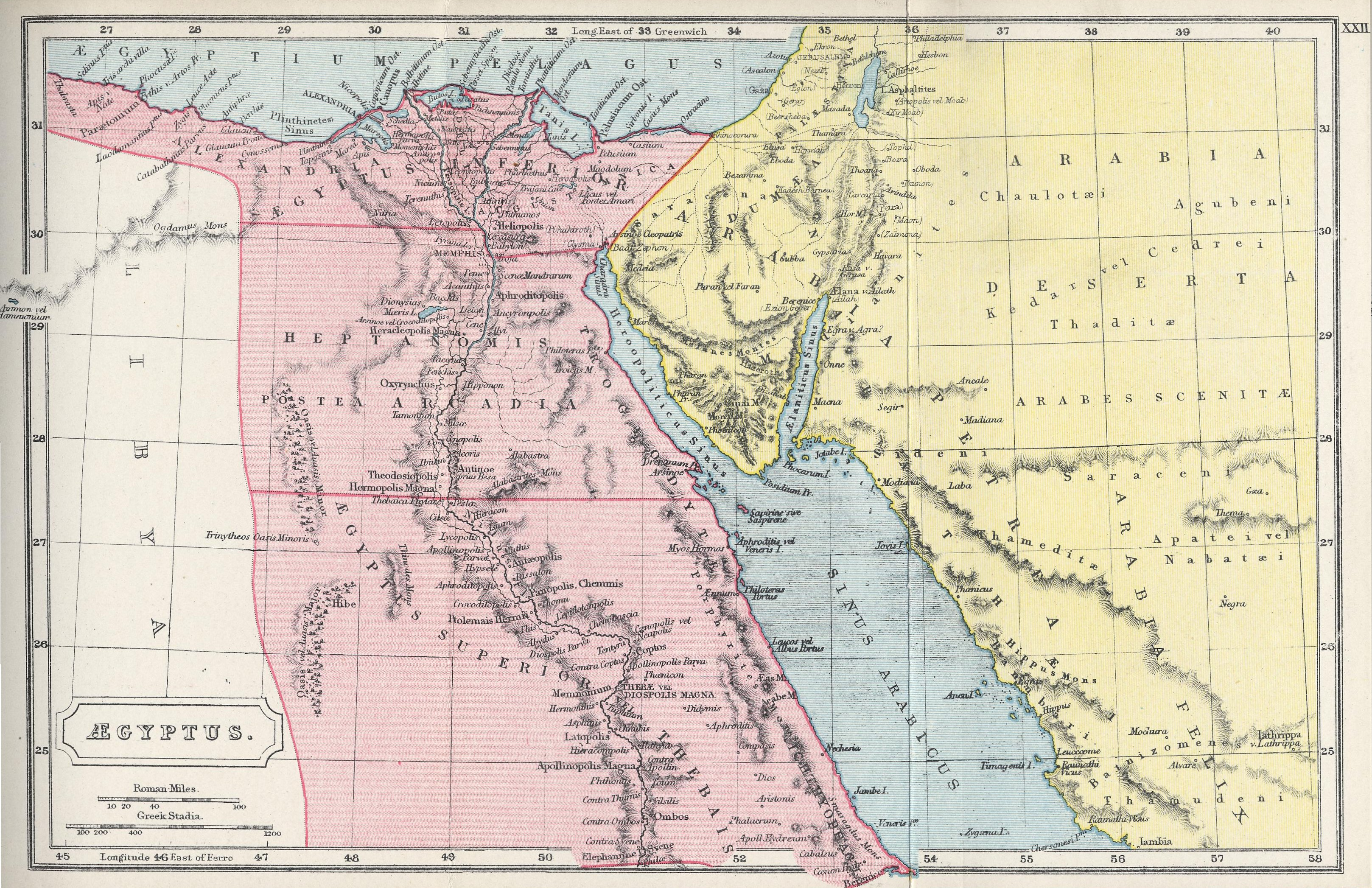 The Atlas of Ancient and Classical Geography by Samuel Butler